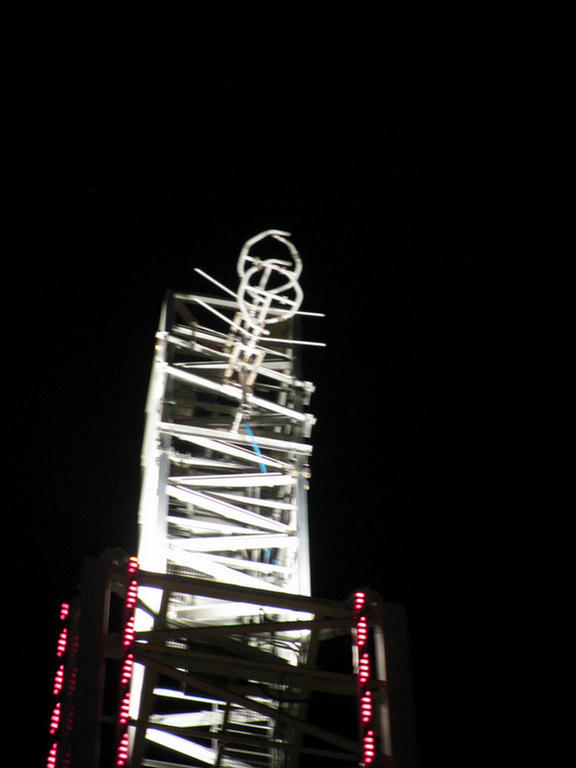 2 Bay ERI antenna mounted atop The Stratosphere in Las Vegas.